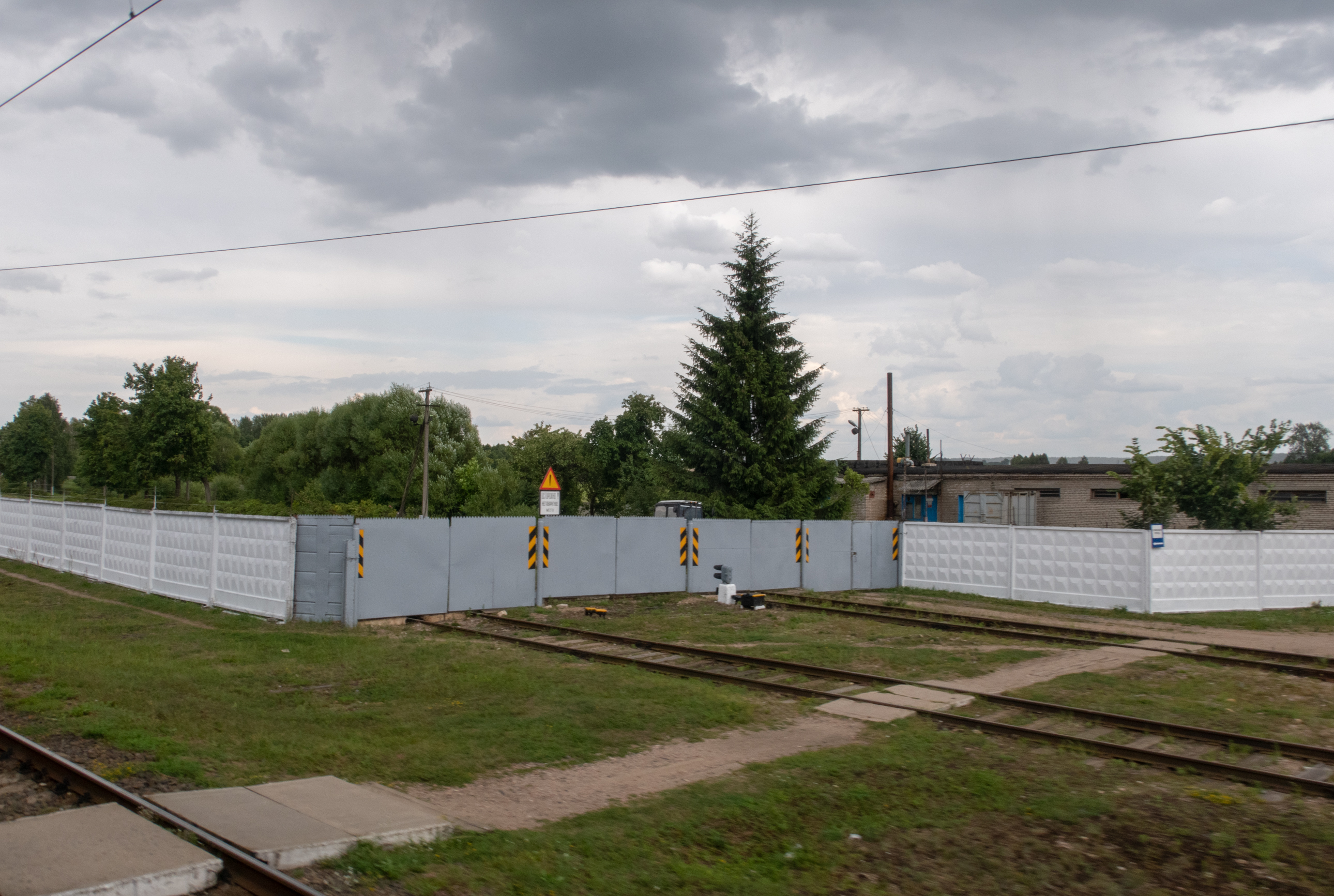 Nieharelaje locomotive reserve base. Minsk region, Belarus